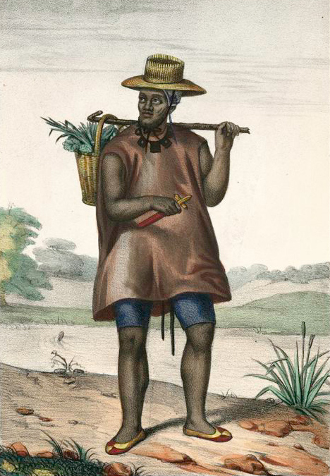 Bambara man